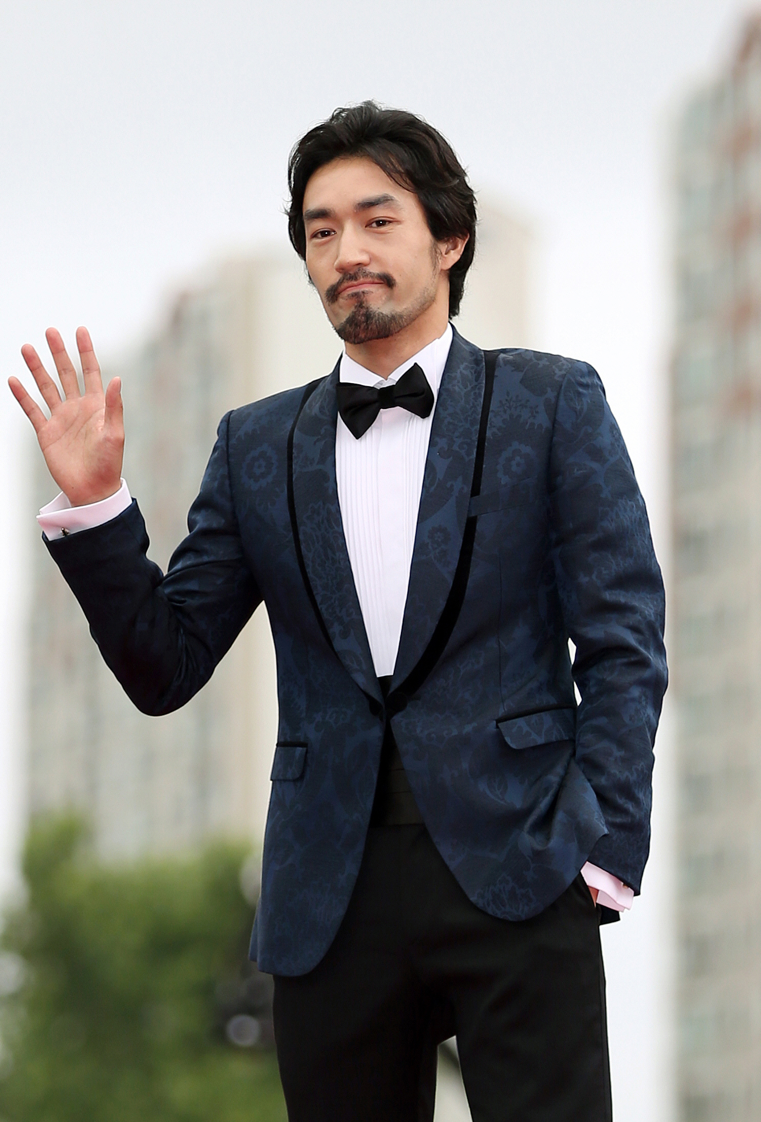 Ryohei Otani at 18th Puchon International Fantastic Film Festival, July 17, 2014